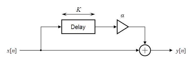 Feedforward comb filter structure